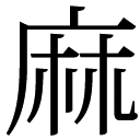 麻 (má) (Pinyin pronunciation), the Chinese expression for hemp, is a pictograph of two plants under a shelter.[1] The use of cannabis, at least as fiber, has been shown to go back at least 10,000 years in Taiwan.[2]